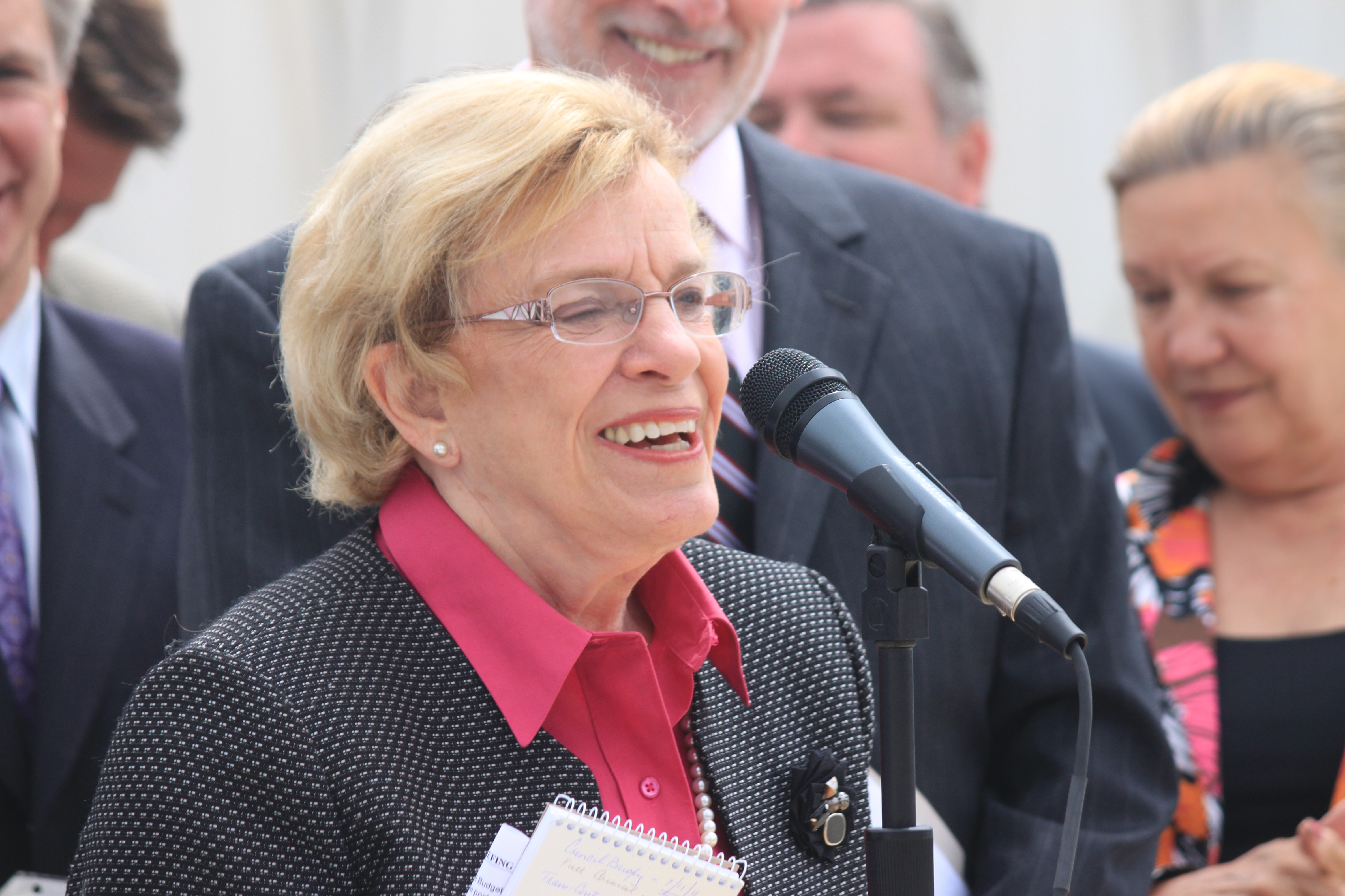 Councilmember Jean Godden, speaking. Present but not shown, Councilmember Tim Burgess, Councilmember Richard Conlin, Mayor Mike McGinn, and King County Executive Dow Constantine announced a new initiative to raise millions of dollars to promote tourism in Seattle.